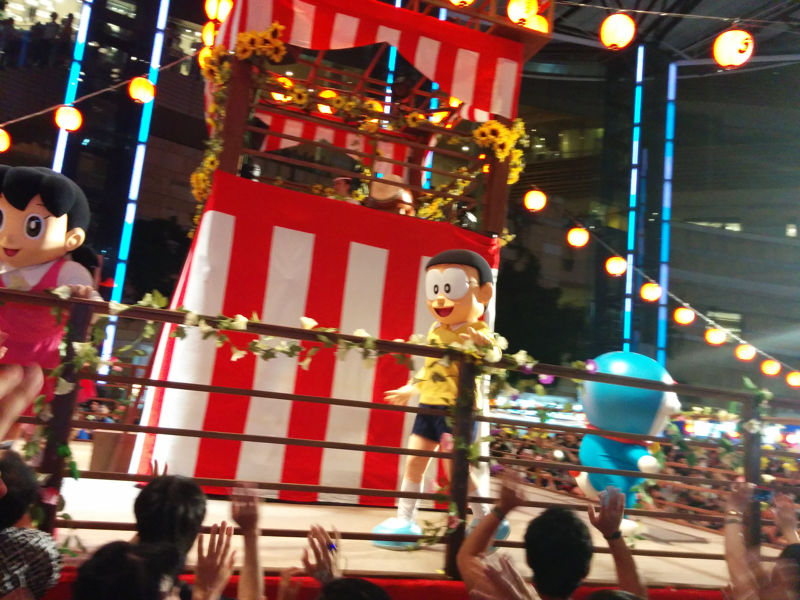 Doraemon, Nobita and Shizuka appear at the Roppongi Hills Bon Odori. TV Asahi headquarters are 20 meters away.